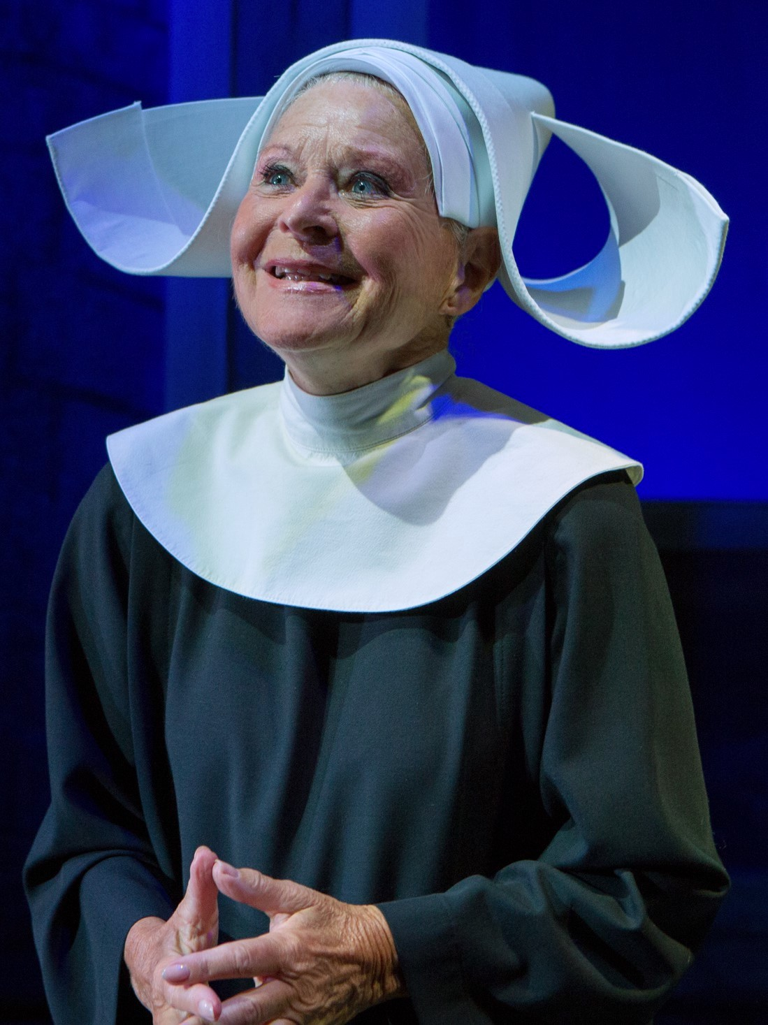 Lone Hertz in the Copenhagen theater Folketeatret's production of the play "Frøken Nitouche" (Mam'zelle Nitouche) by Henri Meilhac and Albert Millaud.